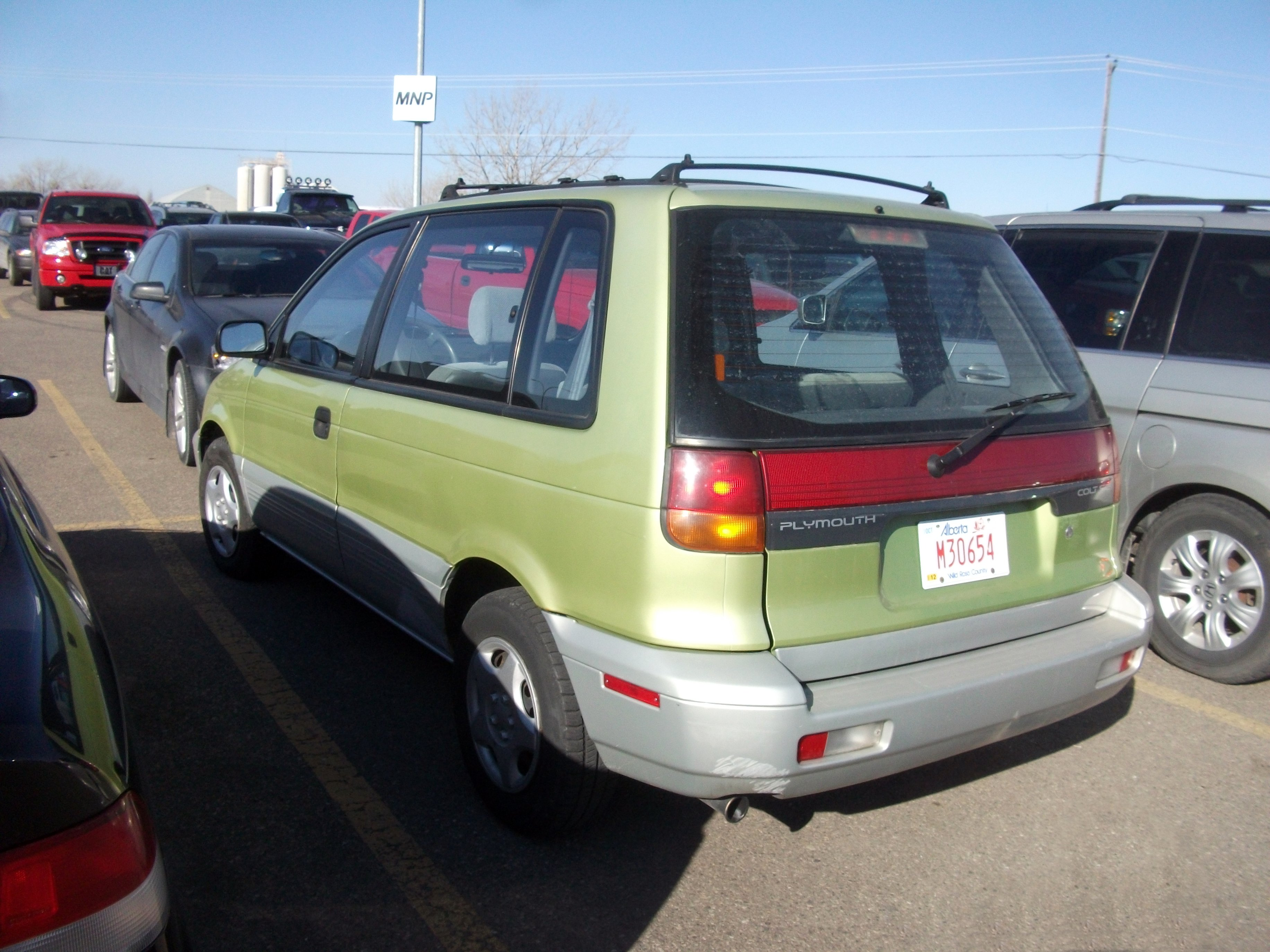 Mini minivan or tall wagon. Haven't seen one of these Plymouth Colt wagons around for a while. Interesting in that they have one door on driver's side plus two on the passenger (regular plus sliding). Mitsubishi design.